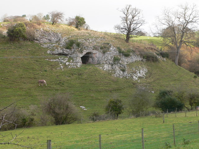 Ffynnon Beuno Cave, Tremeirchion The cave was excavated by Dr Henry Hicks in 1897. He unearthed the bones of 16 different species of animal, including mammoth, woolly rhinoceros, hyena, elk, wolf and cave lion. One of the flint tools unearthed in the cave was later carbon dated to 38,000 B.C. The bones and flint tools are now housed in the National Museum of Wales in Cardiff and the cave is a protected site.